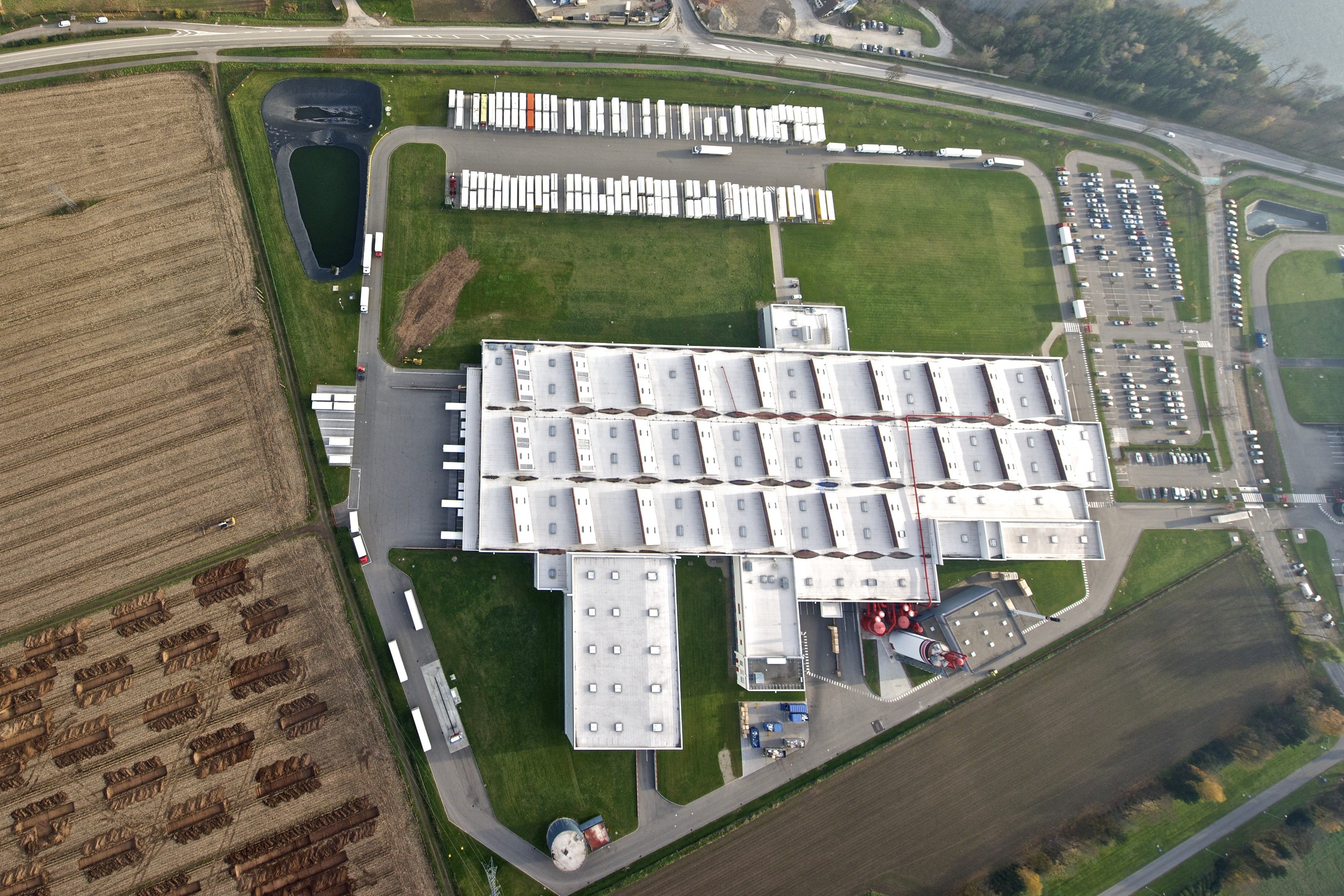 Vue aérienne de l'unité 2 de la Société Alsacienne de meubles, à Sélestat.